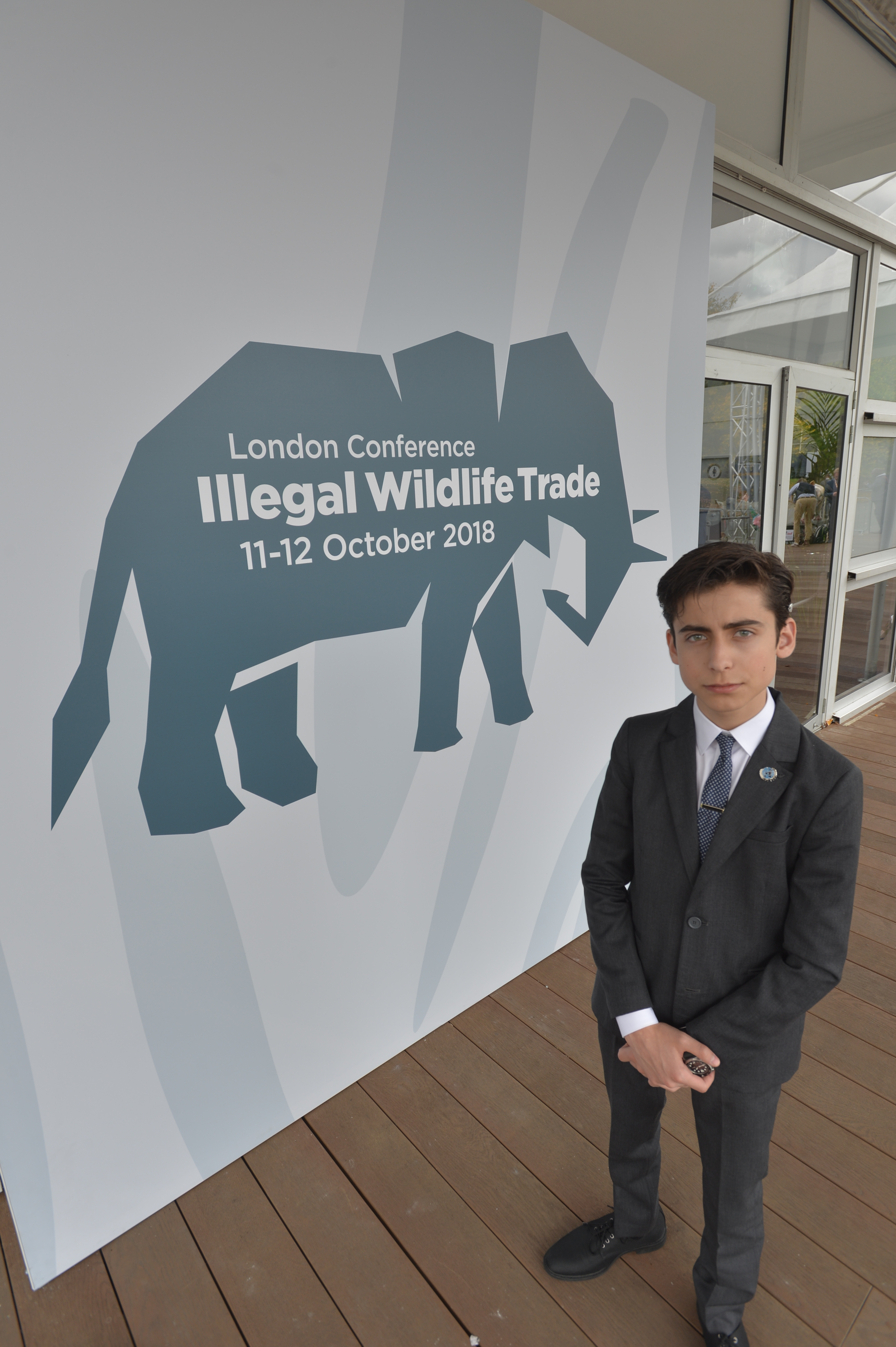 Aidan Gallagher, UN Environment Goodwill Ambassador at the Illegal Wildlife Trade Conference: London 2018, 11 October 2018. Photographer: Mark Mackenzie